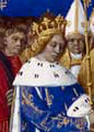 Charles IV of France